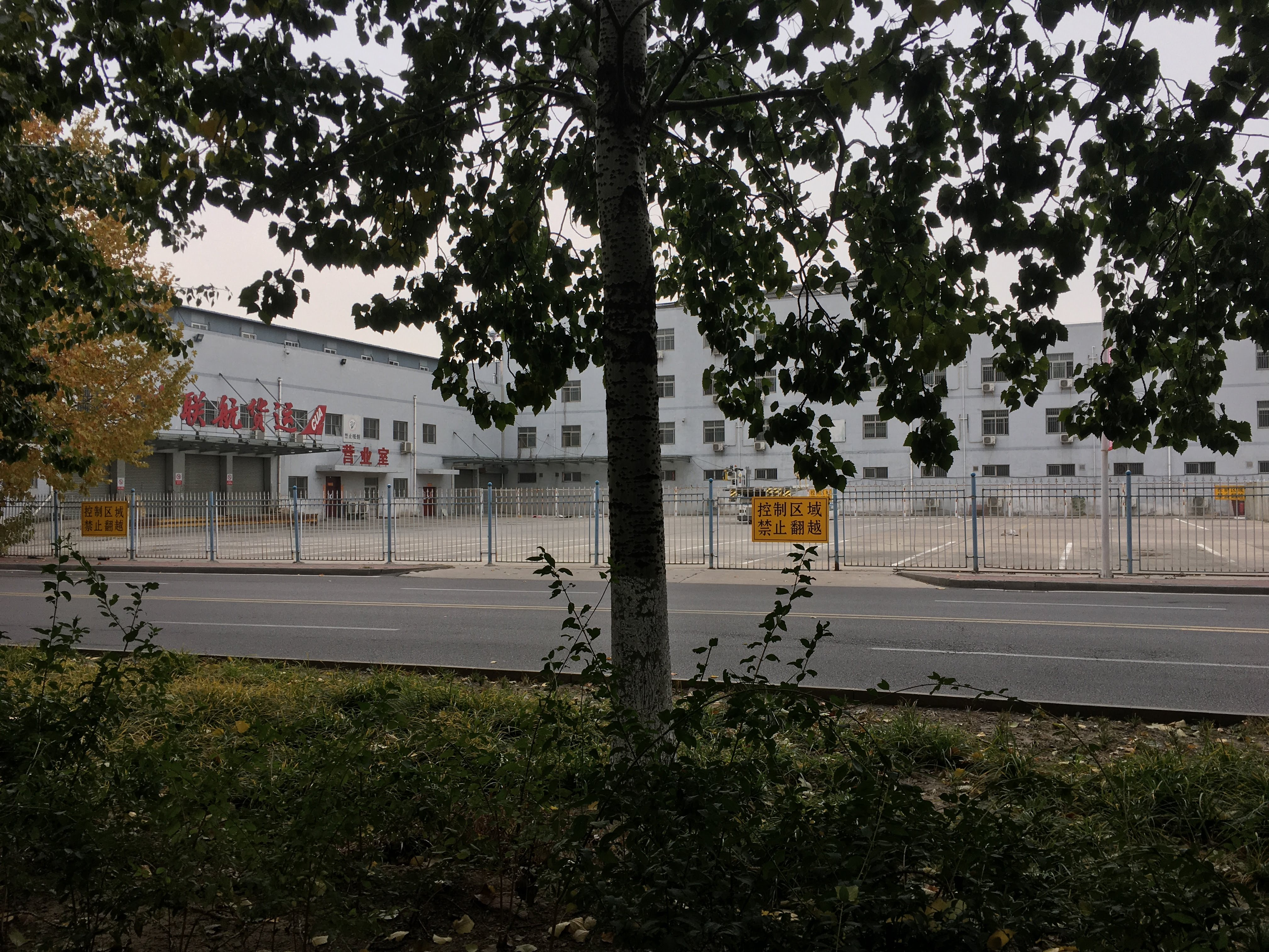 Nanyuan Airport in 11.2.2019